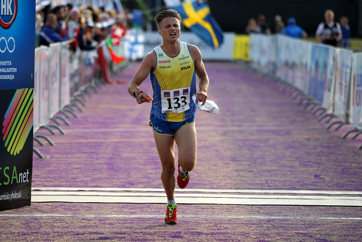 Sprint final 2013, WOC 2013, 08